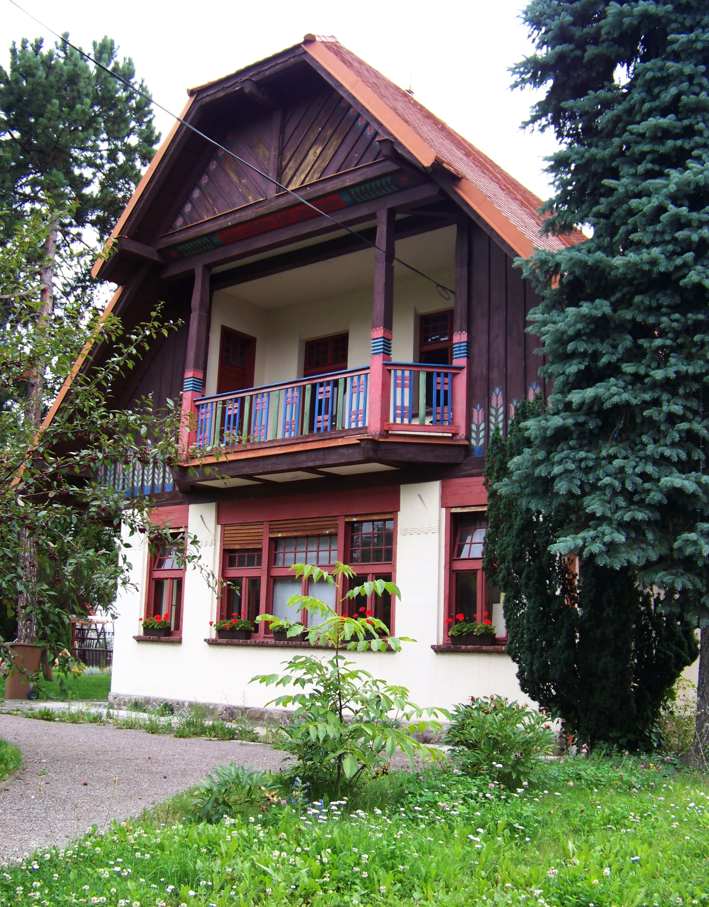 Prague-Strašnice, the Czech Republic. Vilová 91/11, Trmal's Villa.